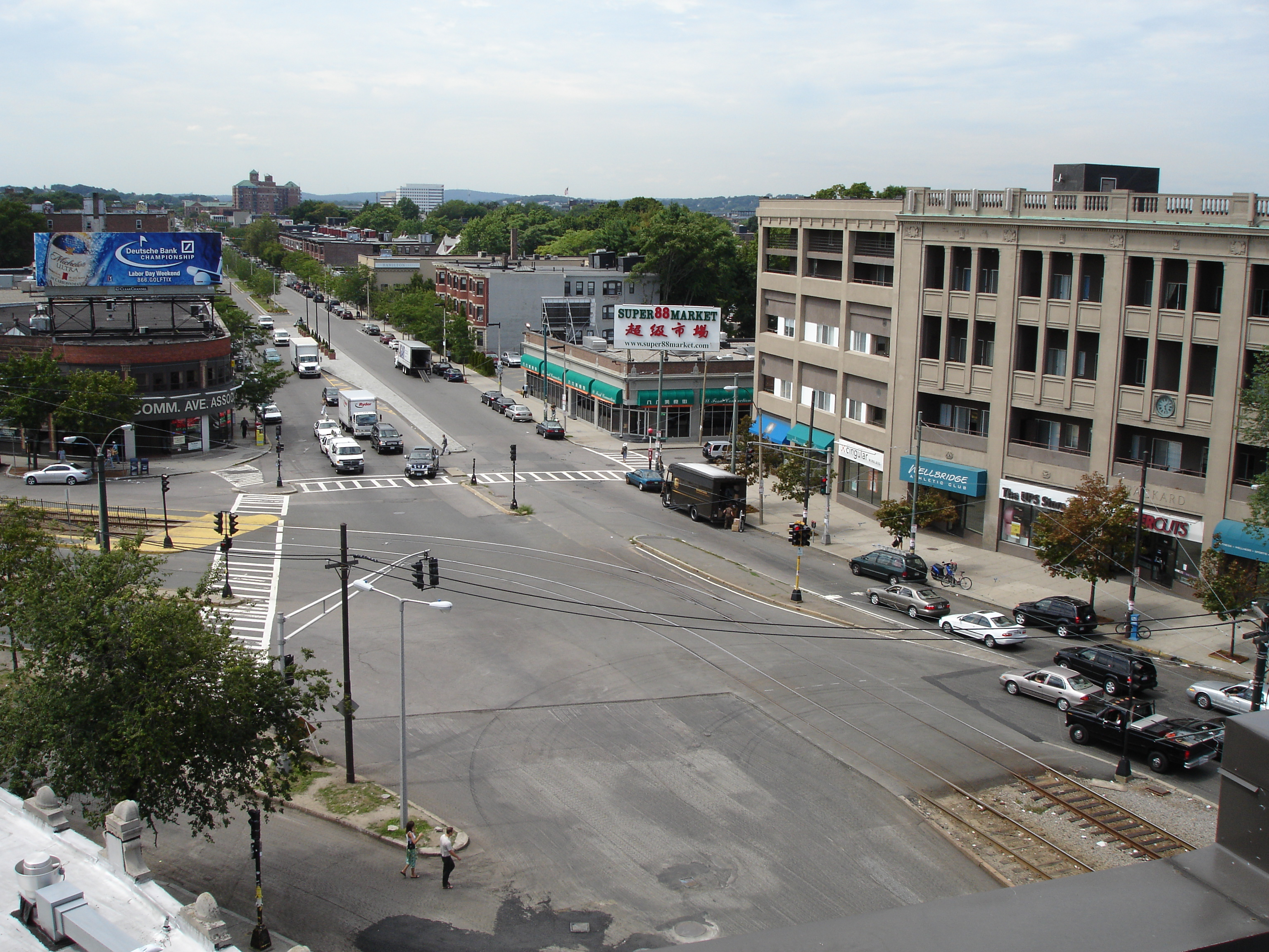 Packard's Corner in Boston. Green Line "B" Branch tracks are visible, as is the remaining stub of "A" Branch track